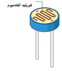 Photo dependent resistor